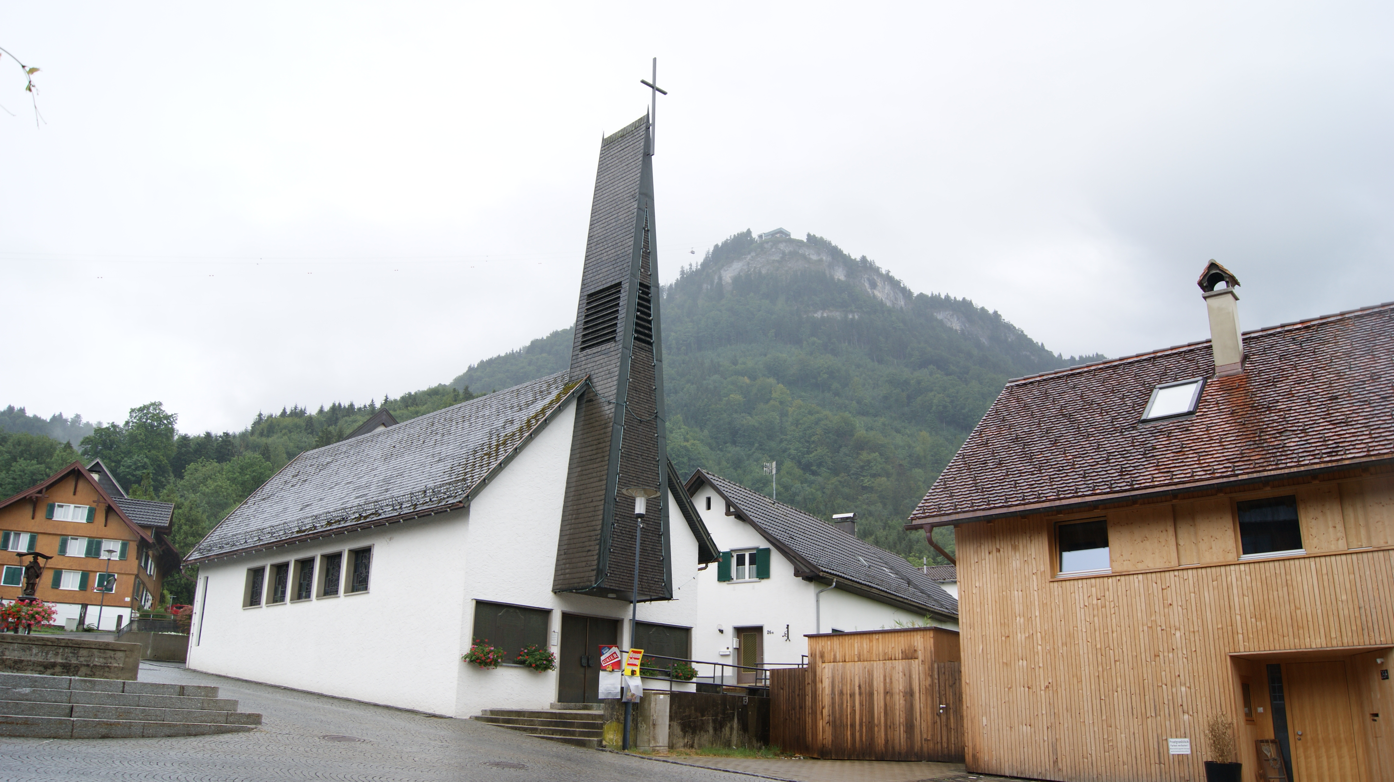 Lourdes Chapel in the hamlet Mühlebach, Dornbirn, Vorarlberg, Austria. Exterior view of the chapel, in the background the "Karren" (mountain).